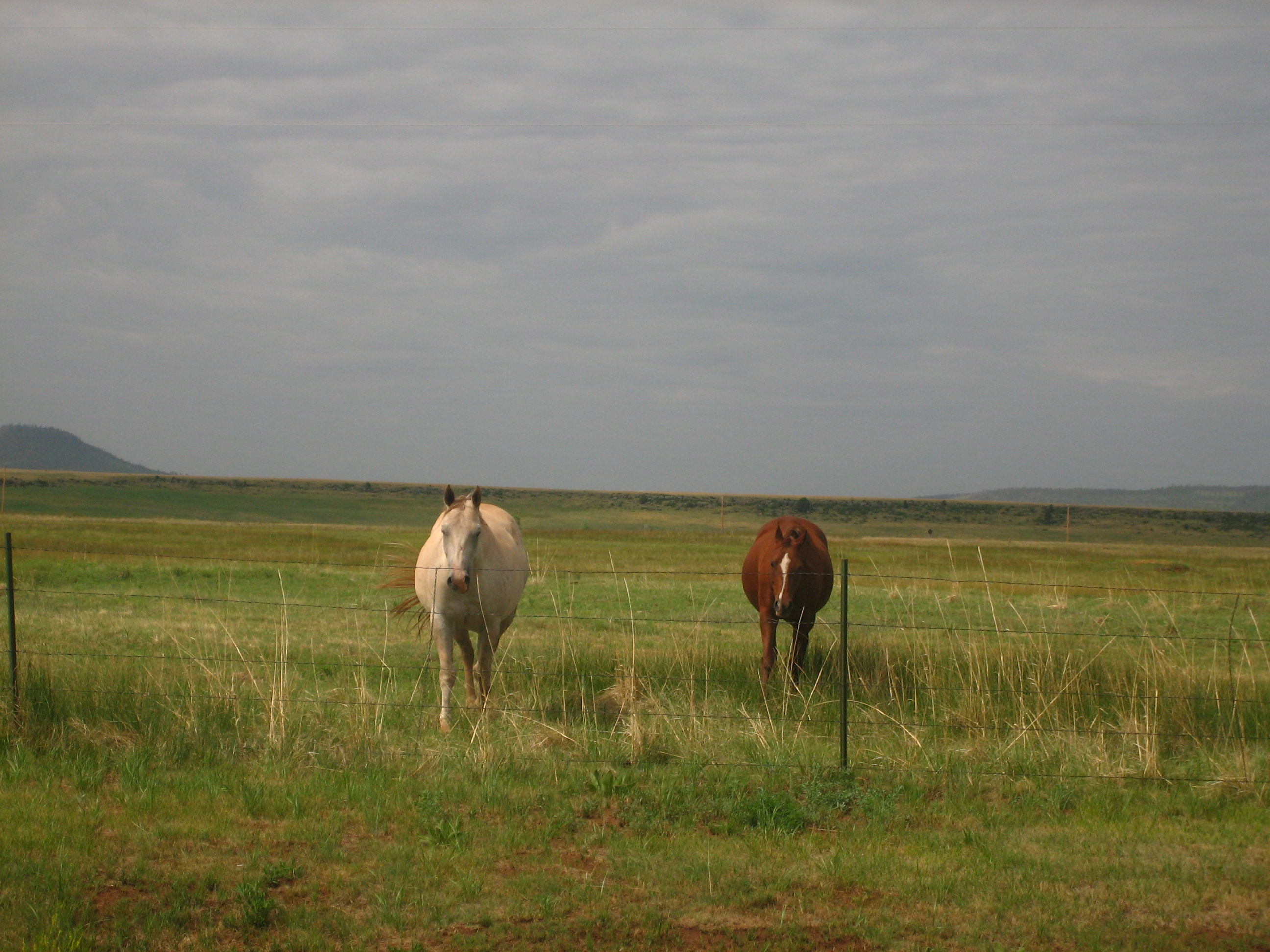 I took photo in July 2008.